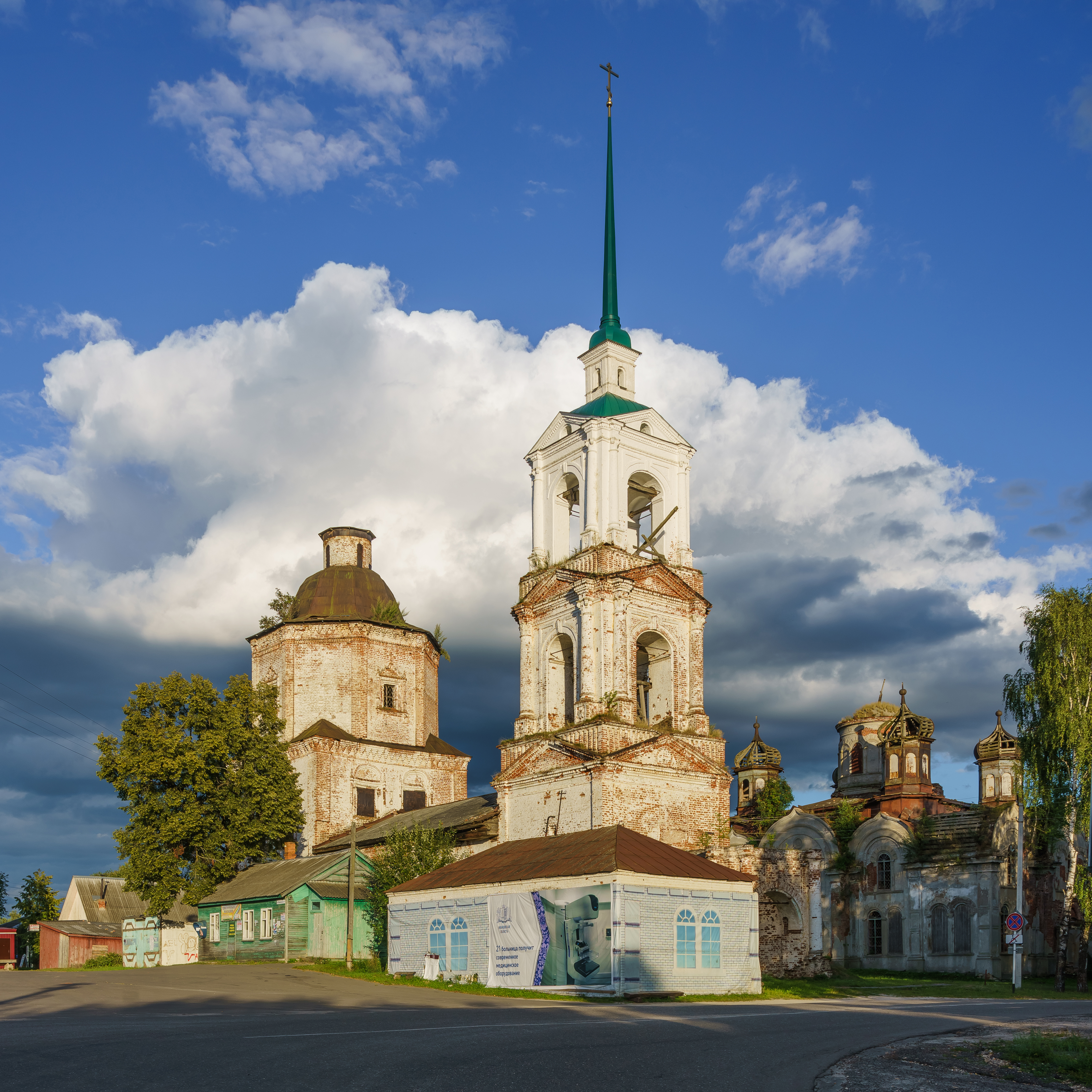 Ascension Church in Verkhny Landekh, Ivanovo Oblast, Russia